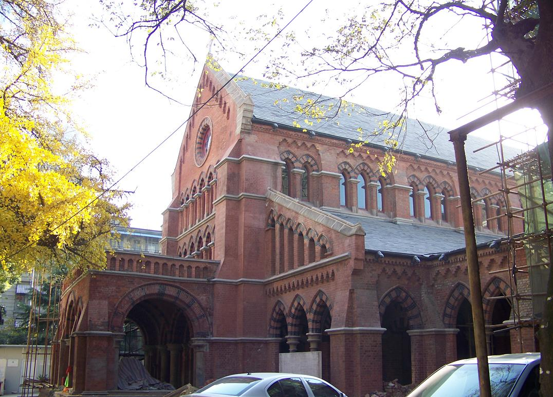 The Holy Trinity Cathedral in Shanghai is under re-decorating. The guard of the church said that the construction will be finished by May. 2008